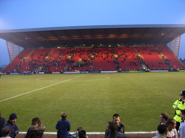 Gresty Road, Crewe. Crewe Alexandra FC's ground. The main (south) stand viewed from the north.